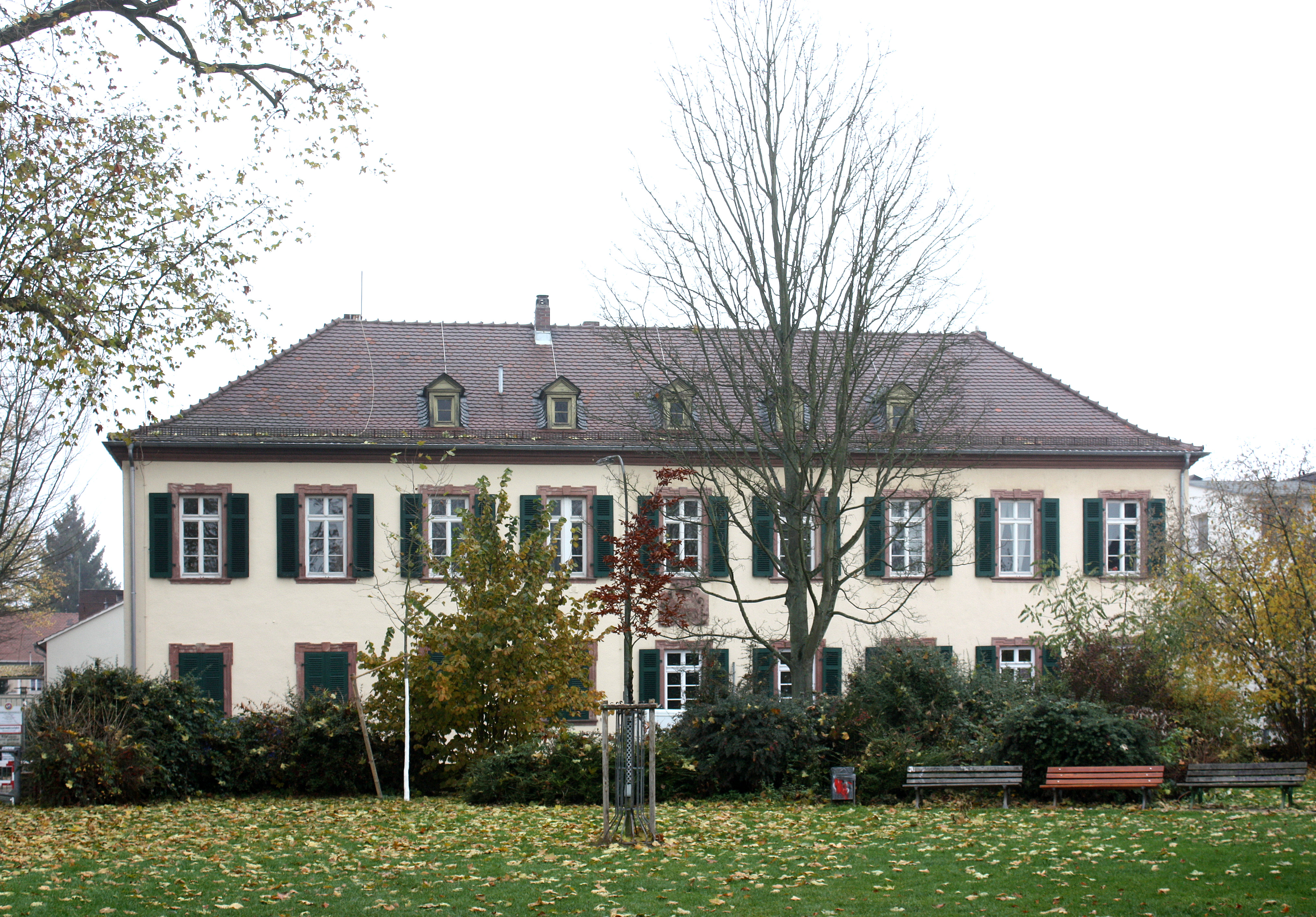 Frankfurt-Heddernheim, the New Palace